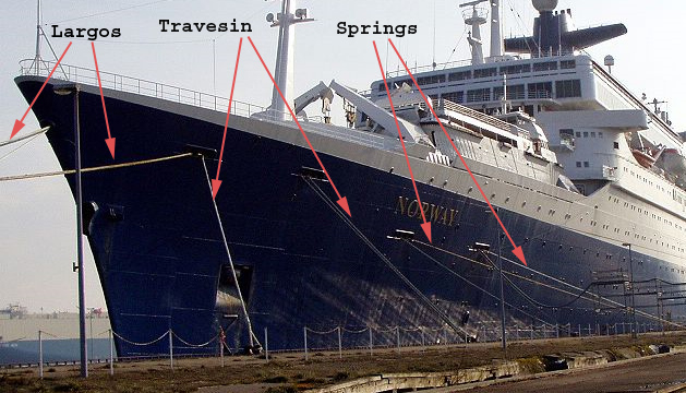 Description: Buque Norway amarrado en el puerto de Bremerhaven, Alemania *Source: Photographed it myself in february 2004 *Photographer: Thorsten Pohl Thpohl